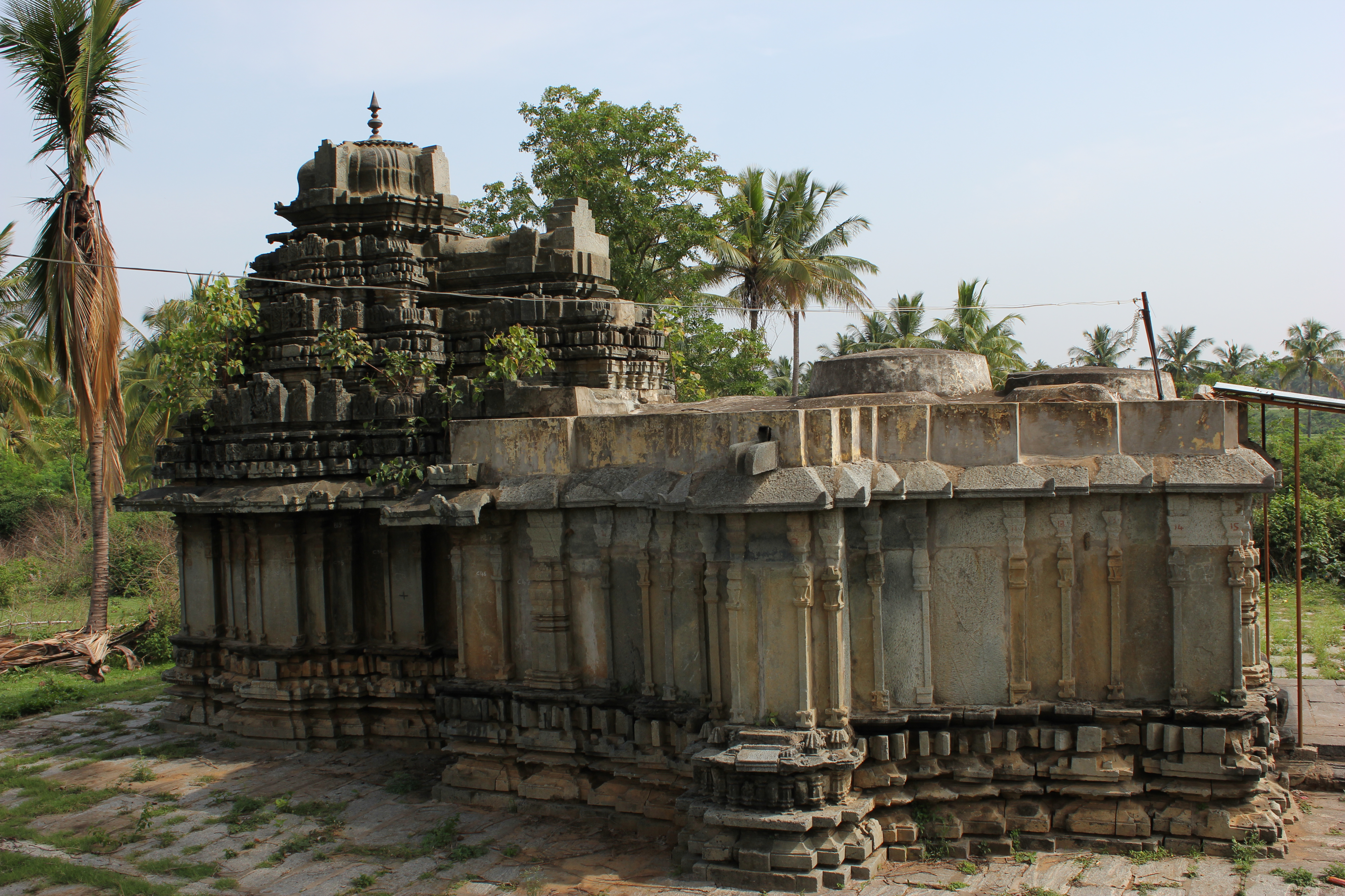 The Mahalingeshwara temple (also spelt Mahalingeshvara or Mahalingesvara) is a modest construction from the Hoysala empire period. It is located in the village of Sante Bachalli, Mandya district, Karnataka state, India